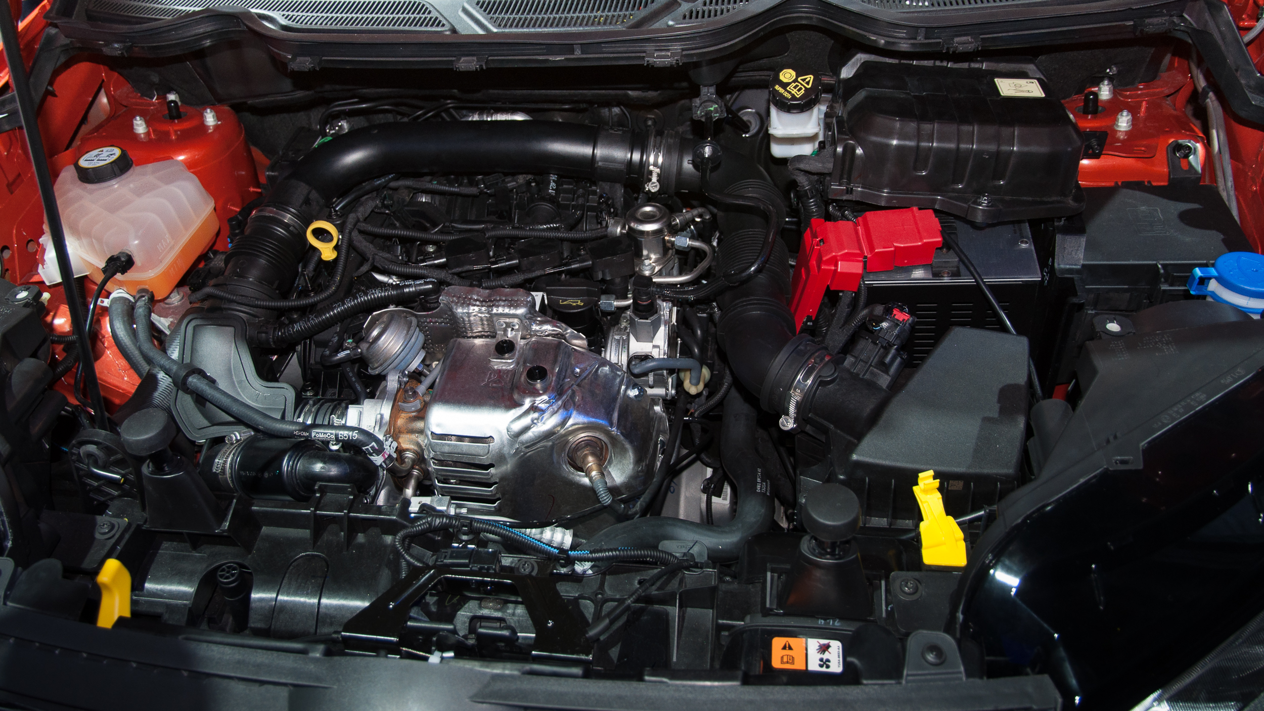 Motor 1,0 L EcoBoost im Ford EcoSport